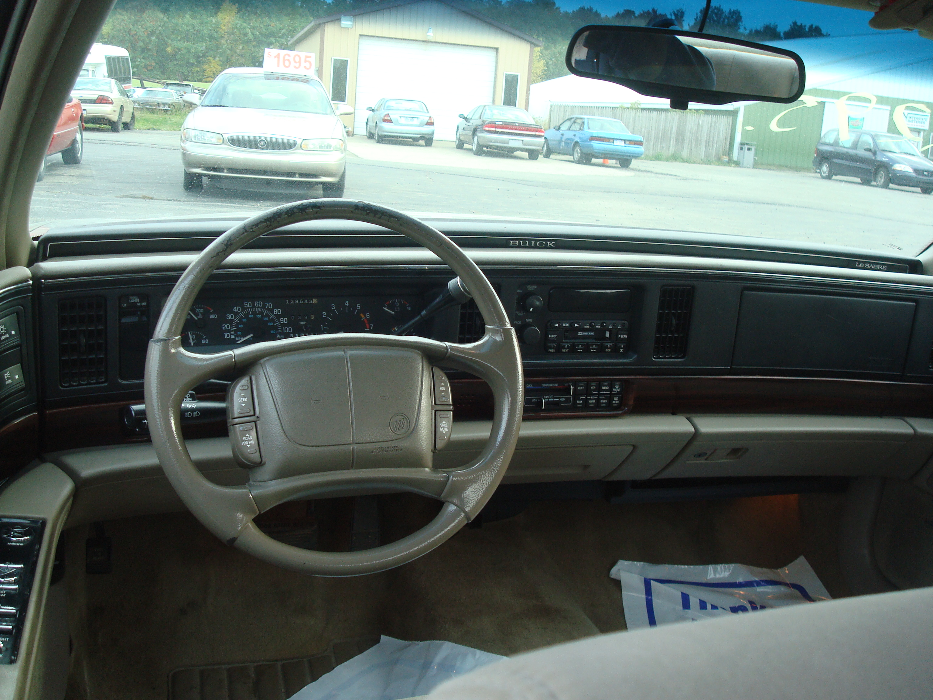 1997-1999 Buick LeSabre dashboard